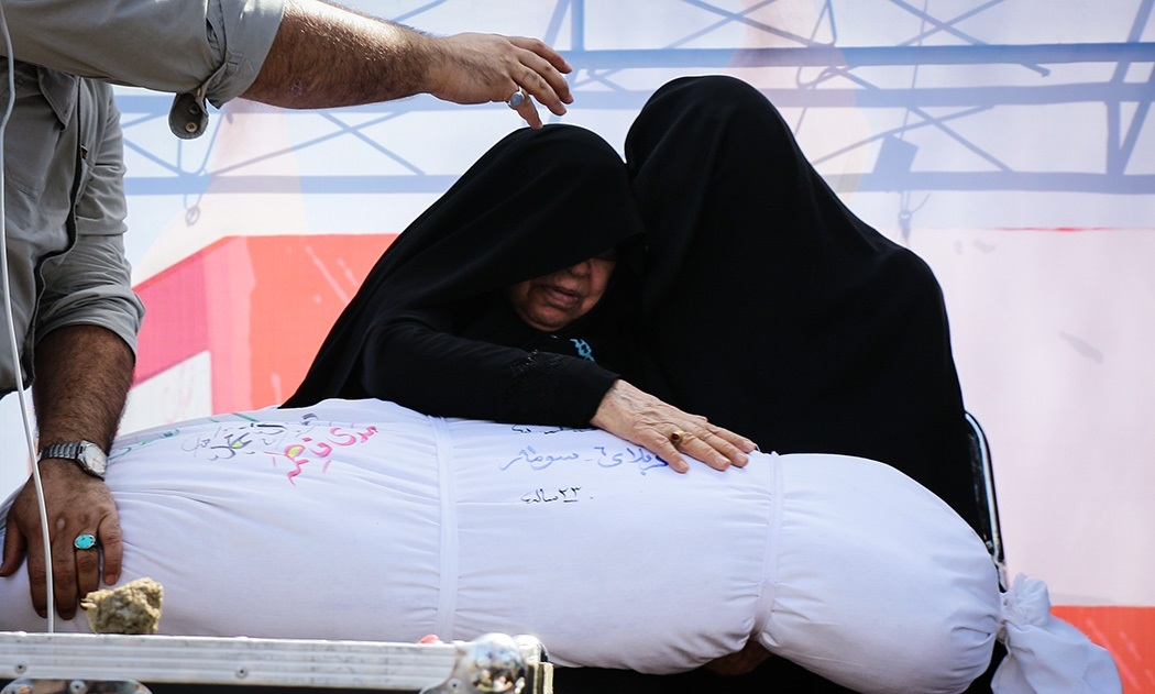 Funeral of two unknown martyrs in Tehran, A mourning women beside the 23-years old soldier coffin. The funeral ceremony of unknown martyr of "the sacred defense" was held on Thursday 15th of March 2018 from Qasr al-Dasht ave, 10th district of Tehran and buried in Rezvan cemetery, full gallery.